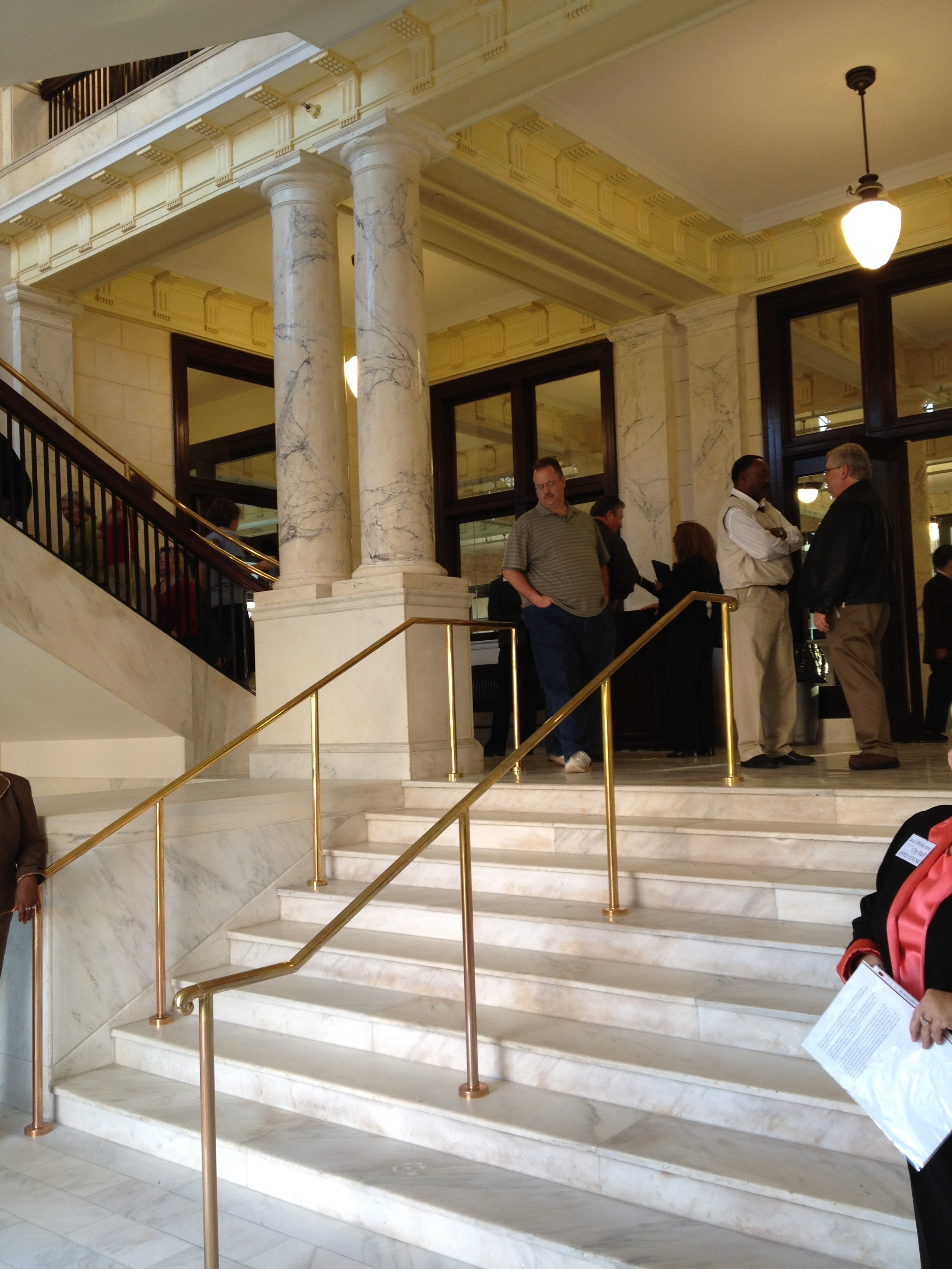 Grand staircase in the lobby of City Hall in Meridian, Mississippi